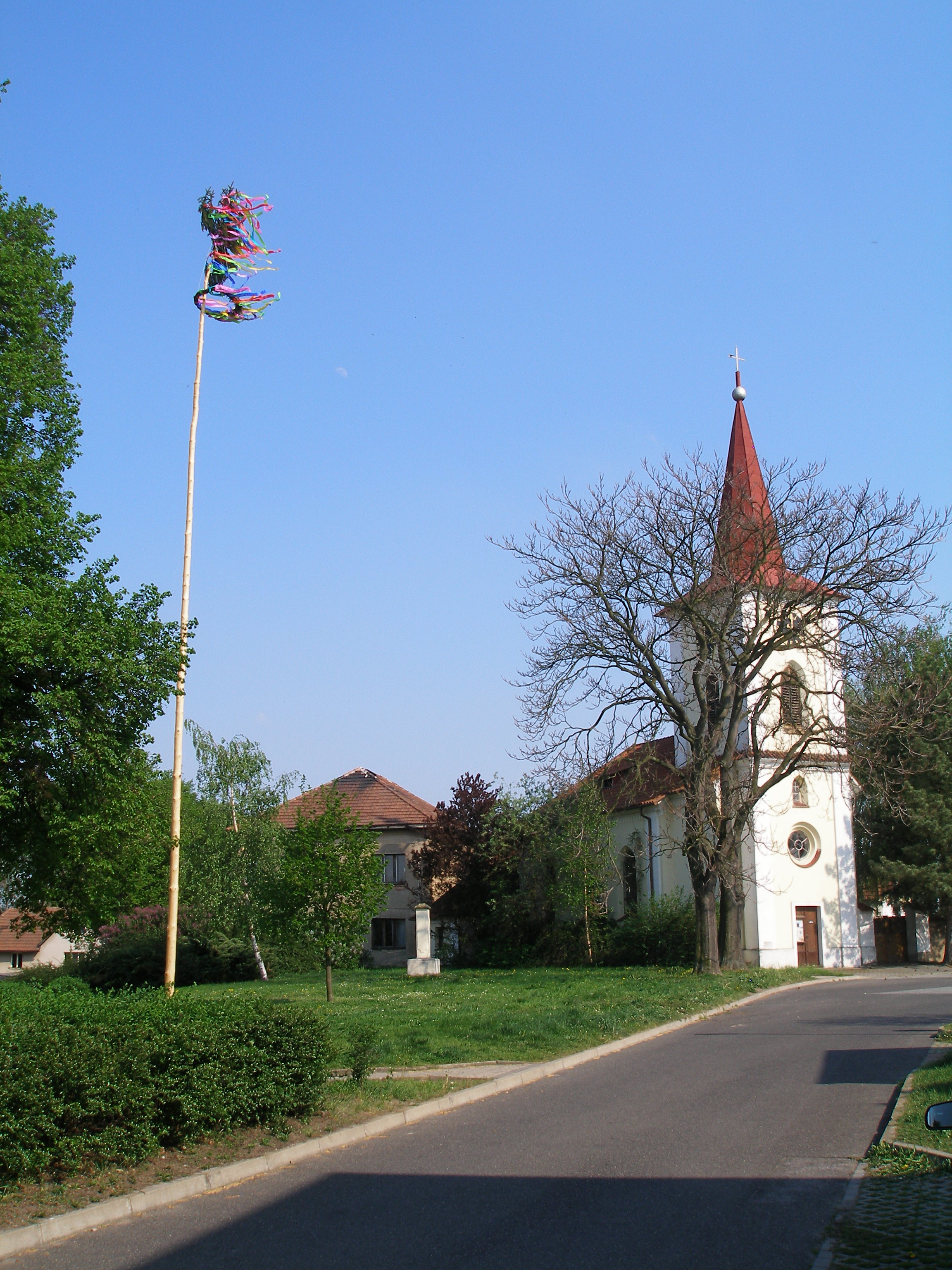 Church of the maypole on the village green in Horní Počaply.